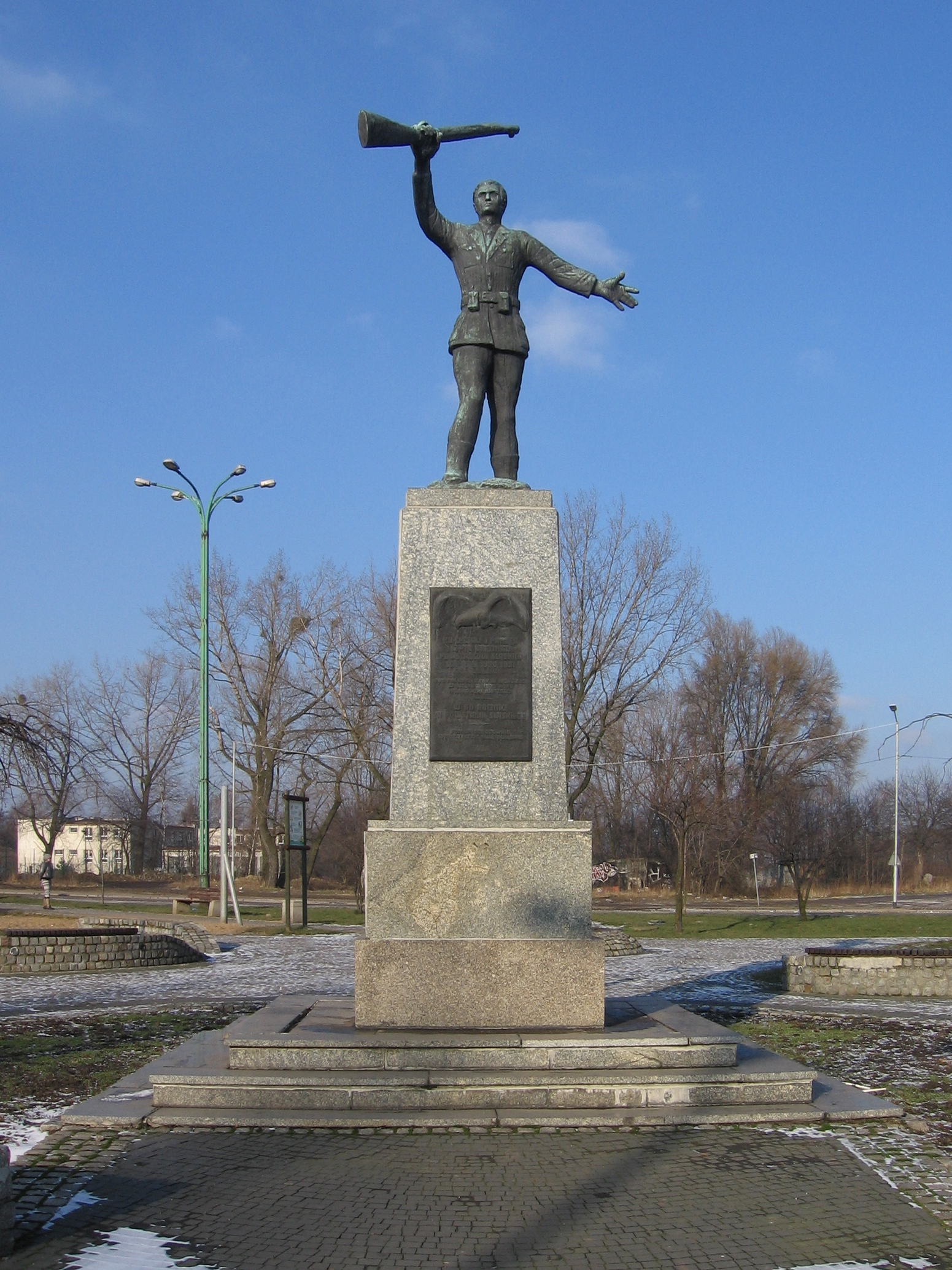 Silesian Uprisings monument from circa 1981 in Słowiański Square in Świętochłowice-Lipiny